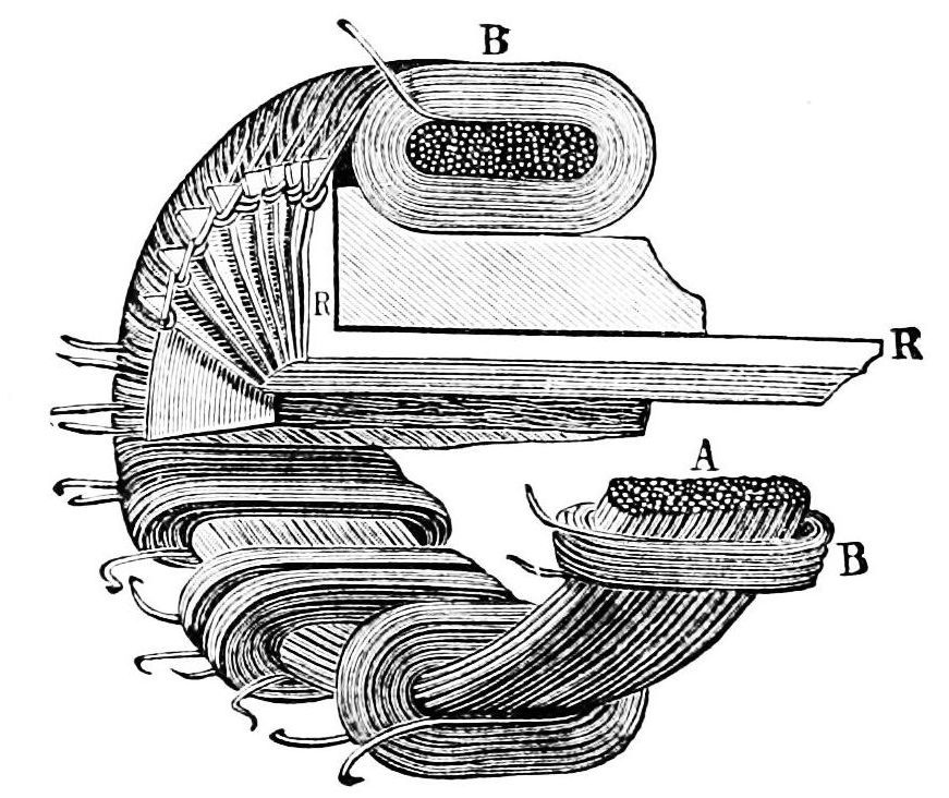 Cut away drawing of a ring armature, System by Zénobe Gramme